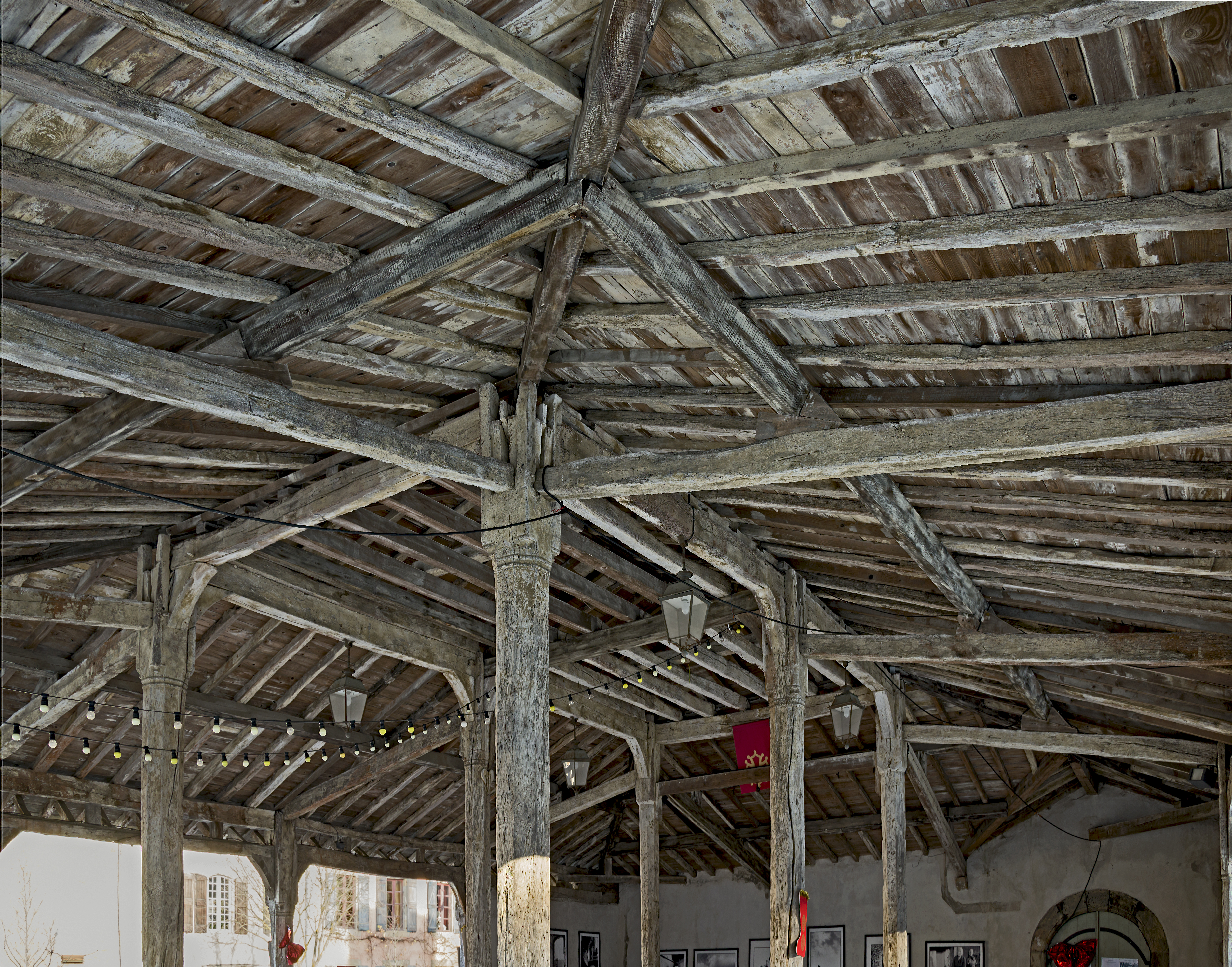 Saint-Félix-Lauragais. The covered market Town Hall Square, fifteenth century. it consists of sixteen octagonal wooden pillars with stone keys. Bases and capitals are molded, and support the wall plates and a-frames of the roof. A tower is adjoining the hall on the Southeast side. View of framing.